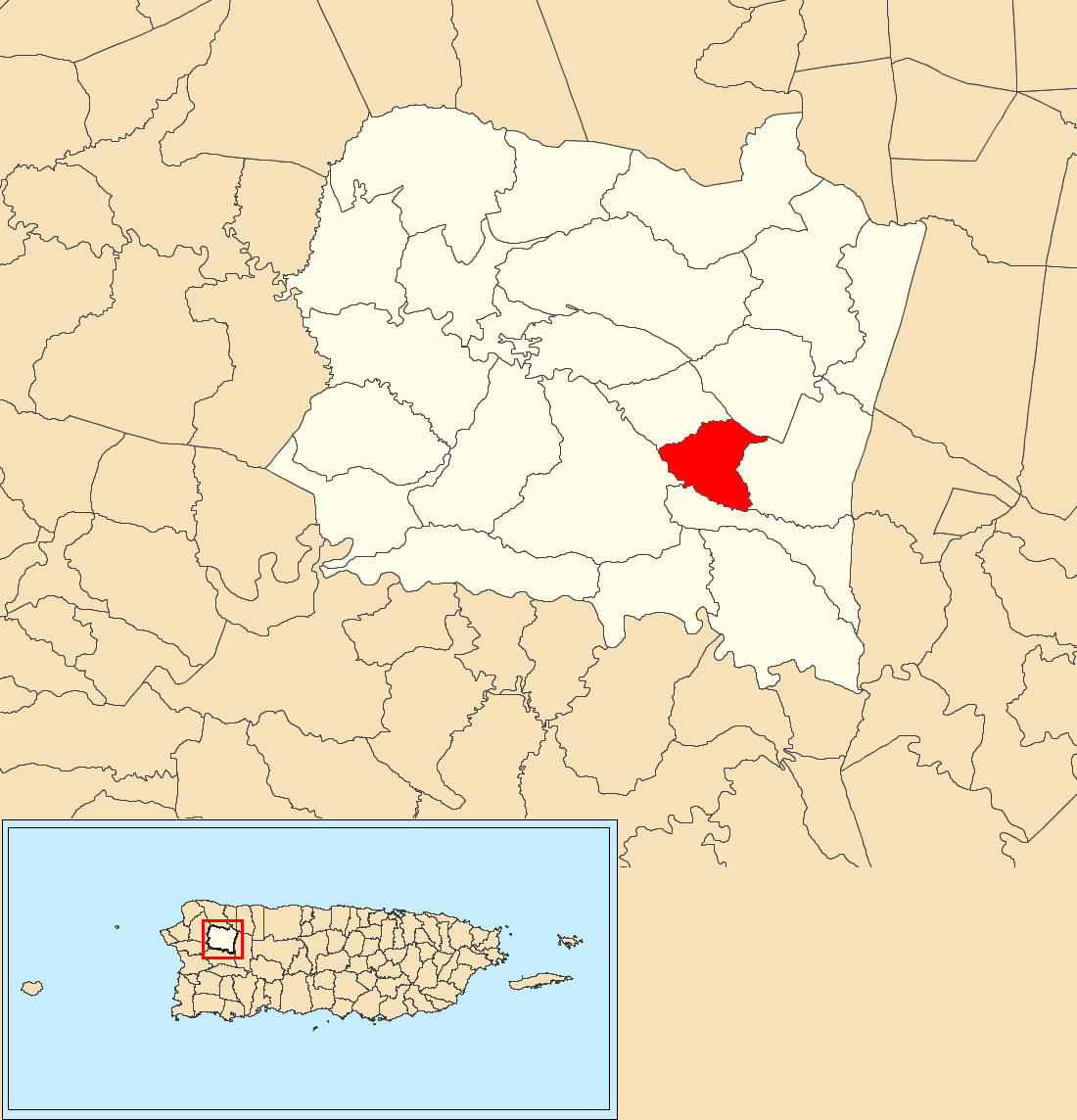 Magos, San Sebastián, Puerto Rico locator map